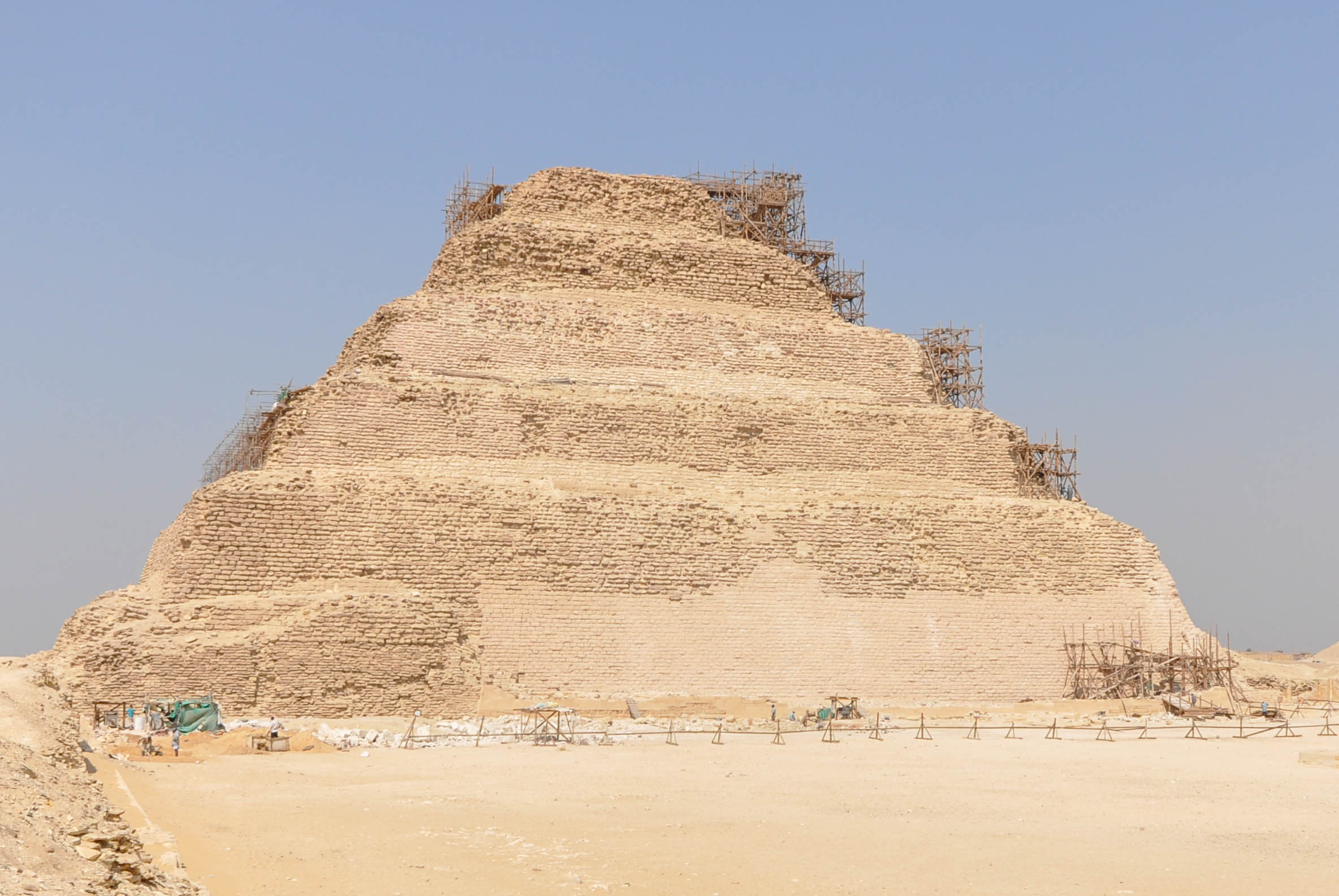 The Pyramid of Djoser (or Zoser), or step pyramid (kbhw-ntrw in Egyptian) is an archeological remain in the Saqqara necropolis, Egypt, northwest of the city of Memphis. It was built during the 27th century BC for the burial of Pharaoh Djoser by Imhotep, his vizier. It is the central feature of a vast mortuary complex in an enormous courtyard surrounded by ceremonial structures and decoration. This first Egyptian pyramid consisted of six mastabas (of decreasing size) built atop one another in what were clearly revisions and developments of the original plan. The pyramid originally stood 62 metres (203 ft) tall, with a base of 109 m × 125 m (358 ft × 410 ft) and was clad in polished white limestone. The step pyramid (or proto-pyramid) is considered to be the earliest large-scale cut stone construction, although the nearby enclosure known as Gisr el-mudir would seem to predate the complex